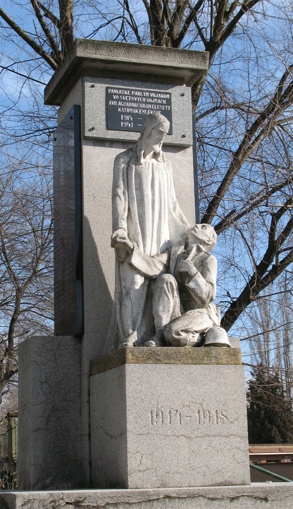 Photo of memorial for prostrated in World Wars from Šaľa